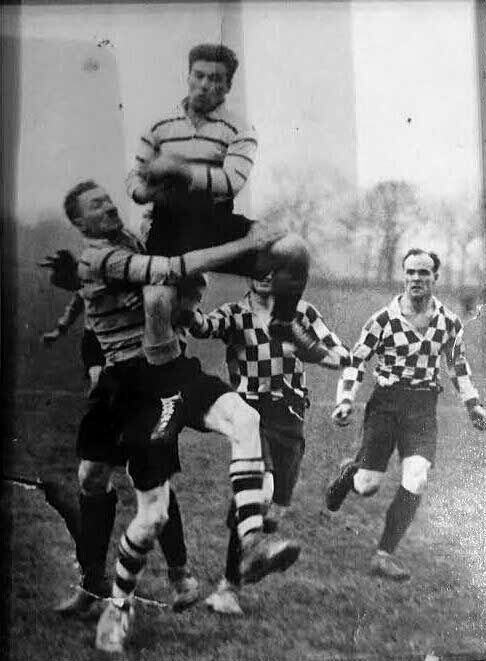 Melbourne Thomas jumping for the ball whilst playing for St. Bartholomew's in a match against the Royal London Hospital rugby team